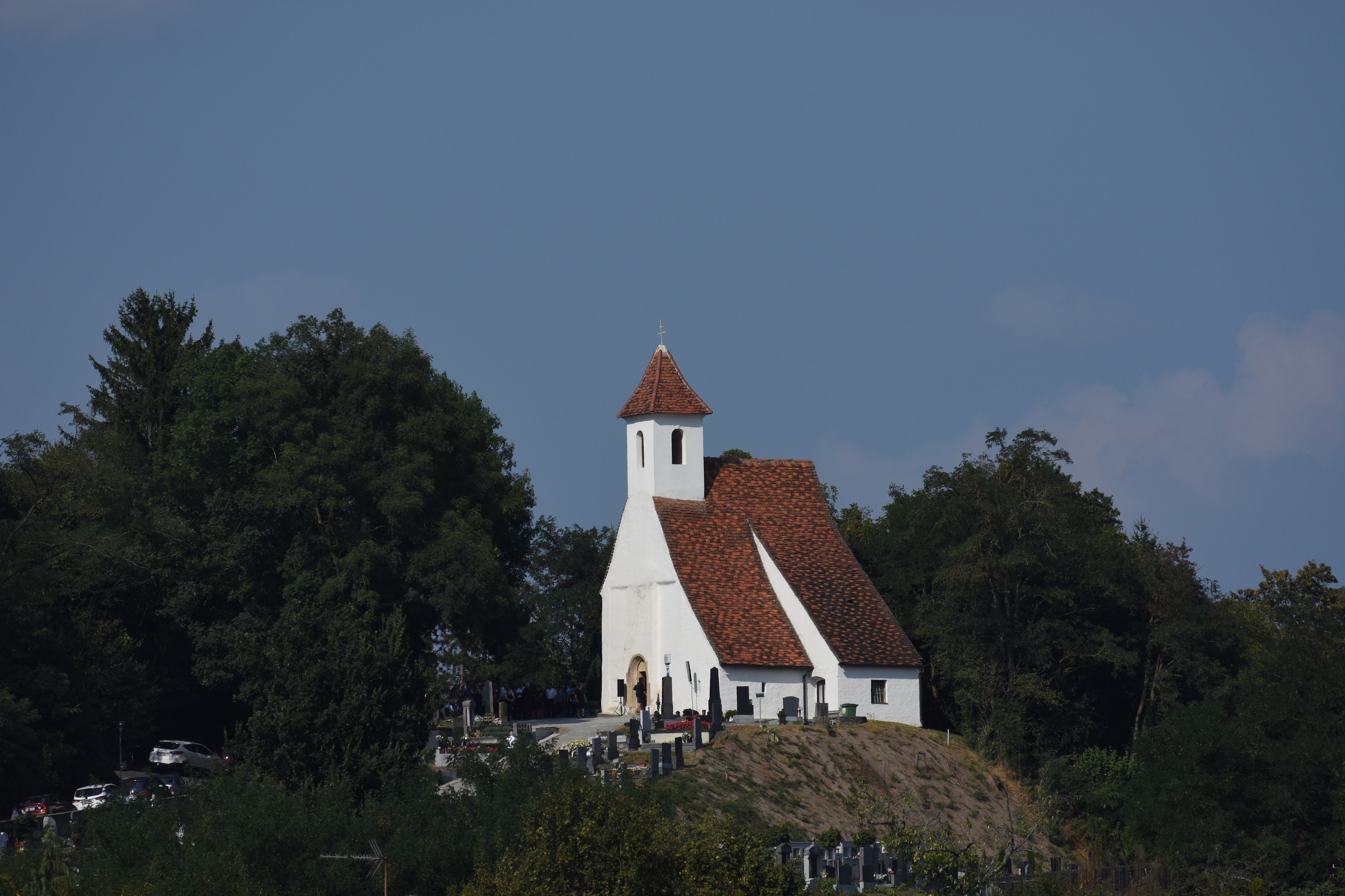 Parish church Güssing